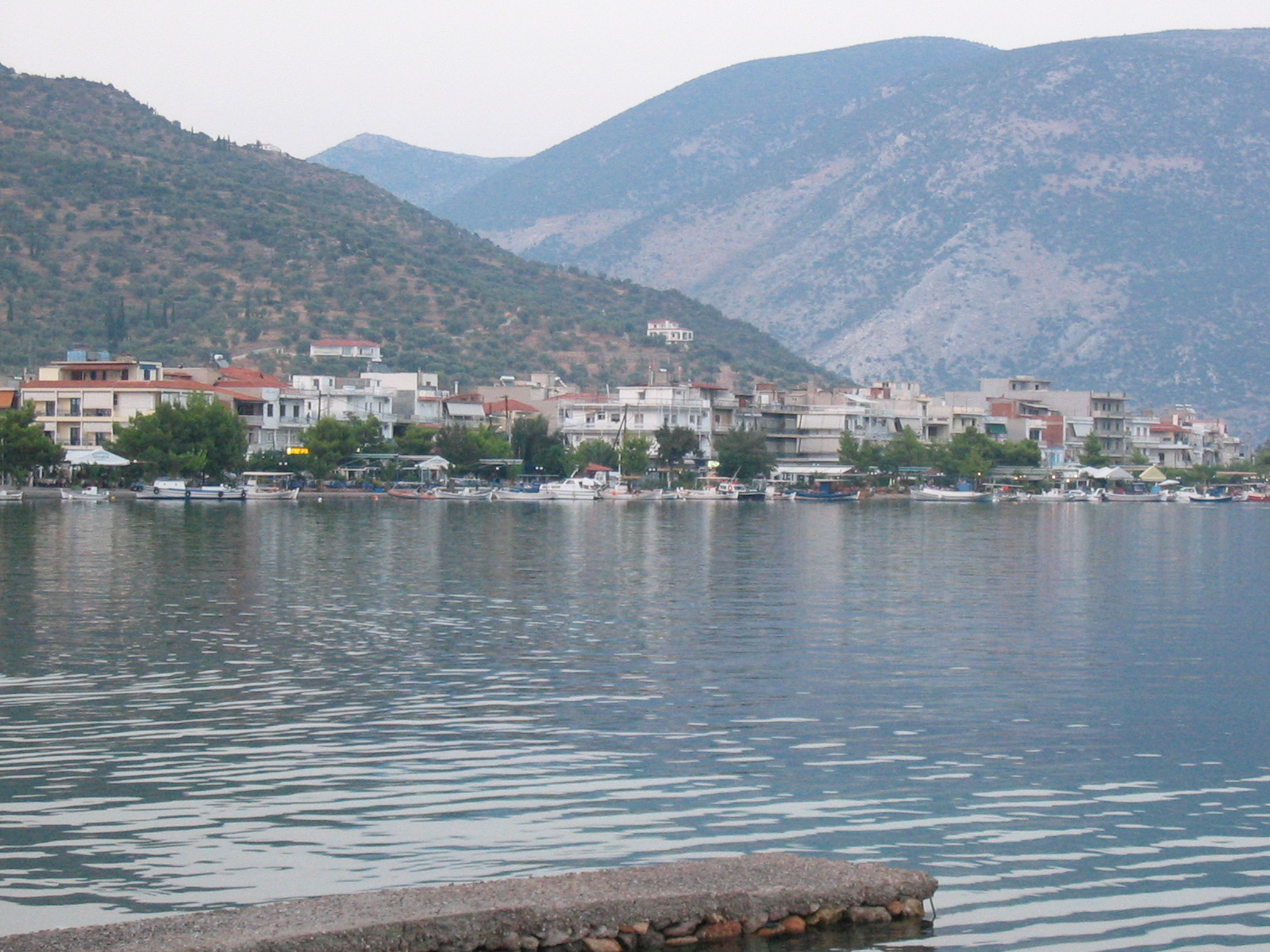 Antikyra's view